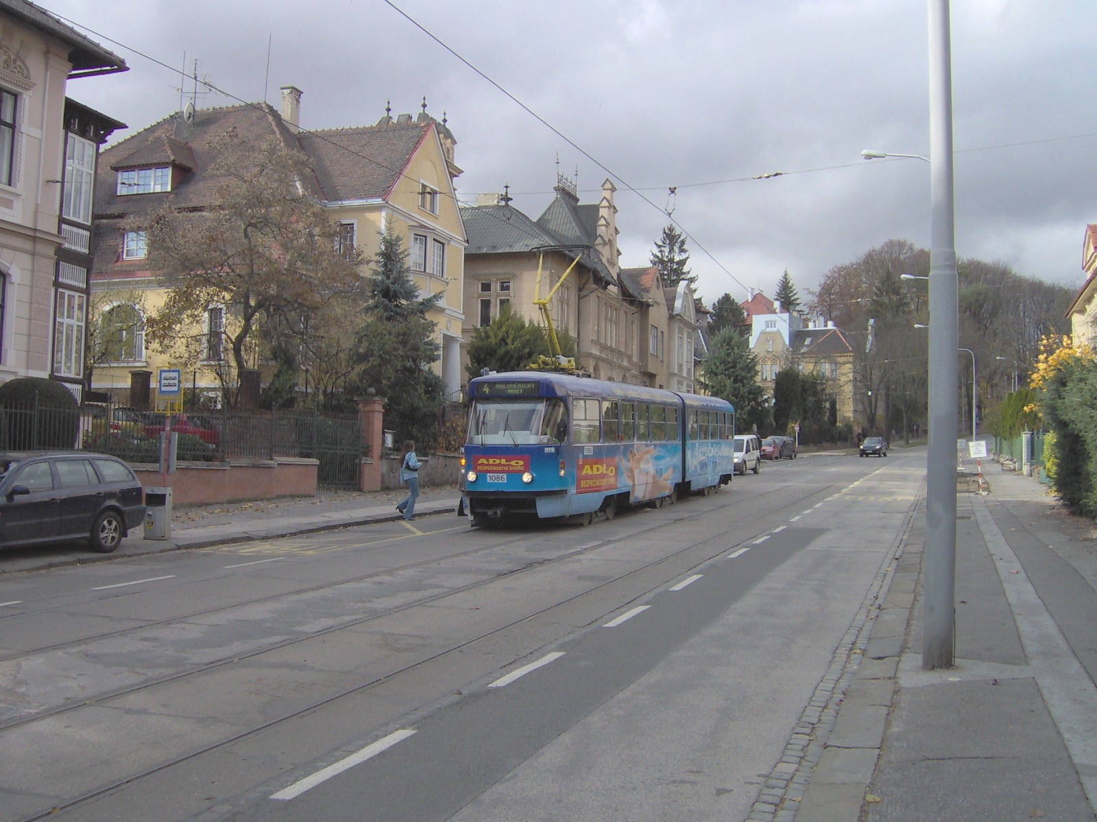 Tram track in Údolní street, Všetičkova stop, Tatra K2P tram